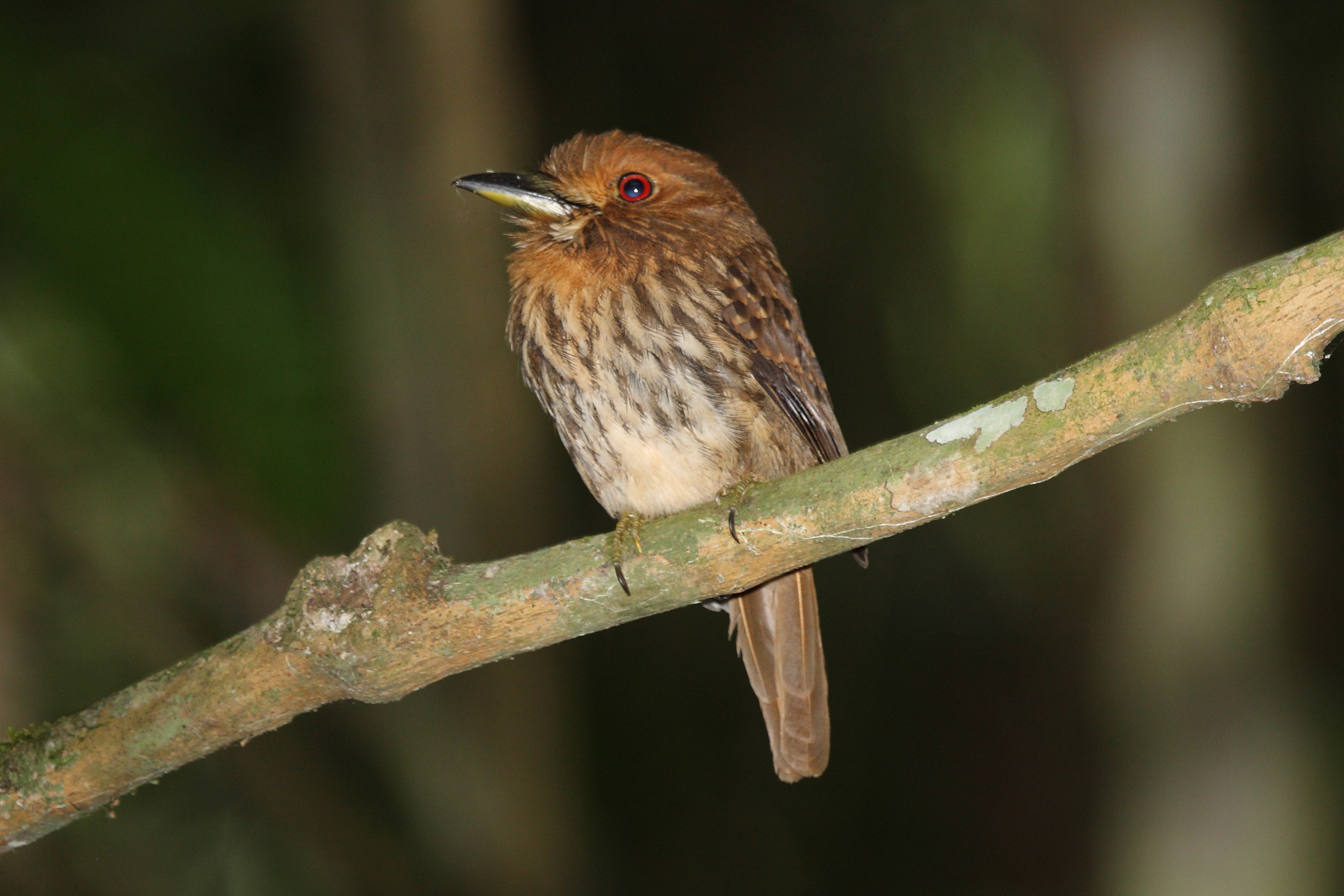 White-whiskered Puffbird (Malacoptila panamensis). Taken in Panama.